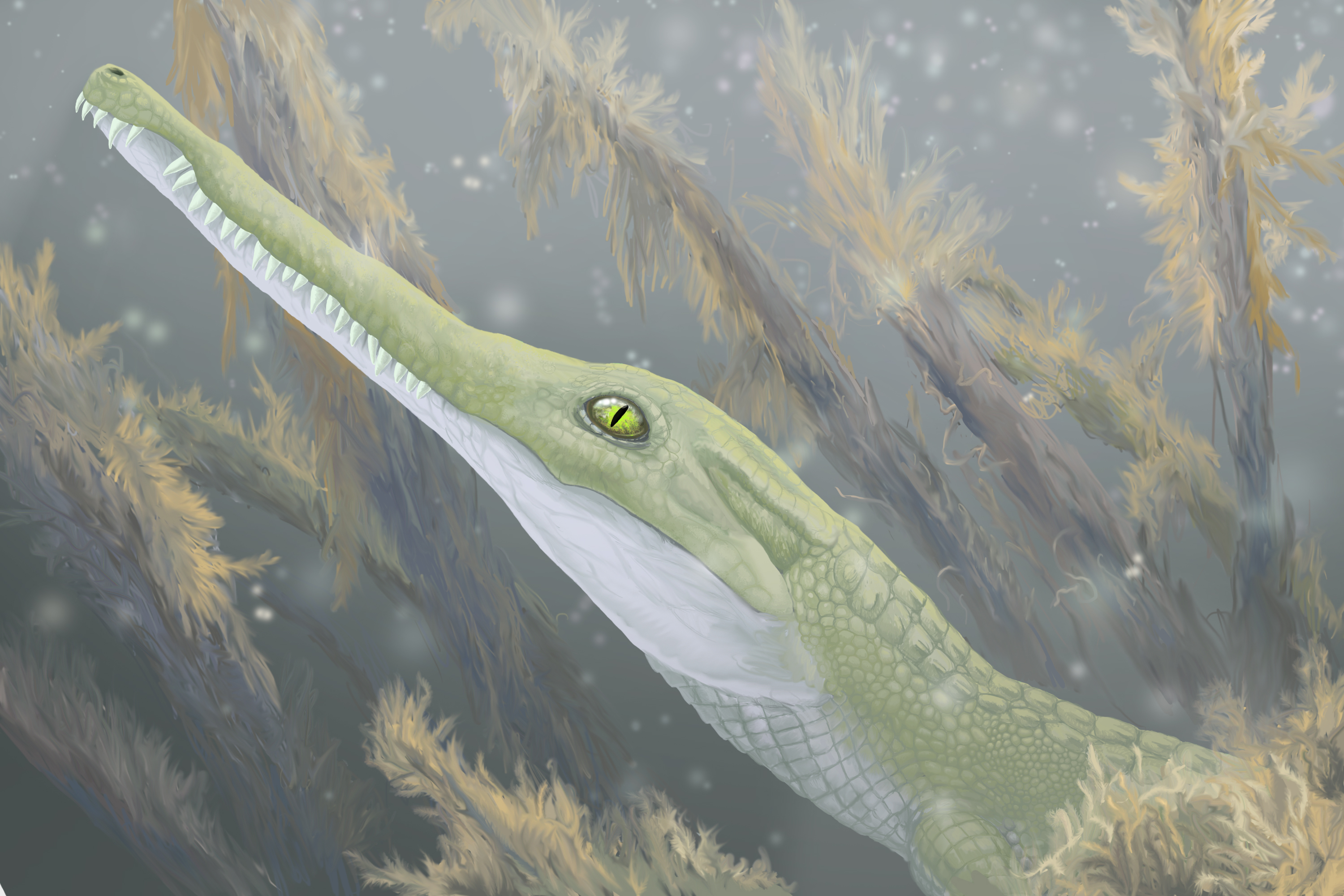 Life restoration of Batrachomimus pastosbonensis. Head based on figures in "A new neosuchian with Asian affinities from the Jurassic of northeastern Brazil" by Felipe C. Montefeltro, Hans C. E. Larsson, Marco A. G. de França, and Max C. Langer (Naturwissenschaften in press) Osteoderms based on those of Shamosuchus djadochtaensis, described in "Morphology of the Late Cretaceous crocodylomorph Shamosuchus djadochtaensis and a discussion of neosuchian phylogeny as related to the origin of Eusuchia" by Diego Pol, Alan H. Turner, and Mark A. Norell (Bulletin of the American Museum of Natural History 324: 1-103).